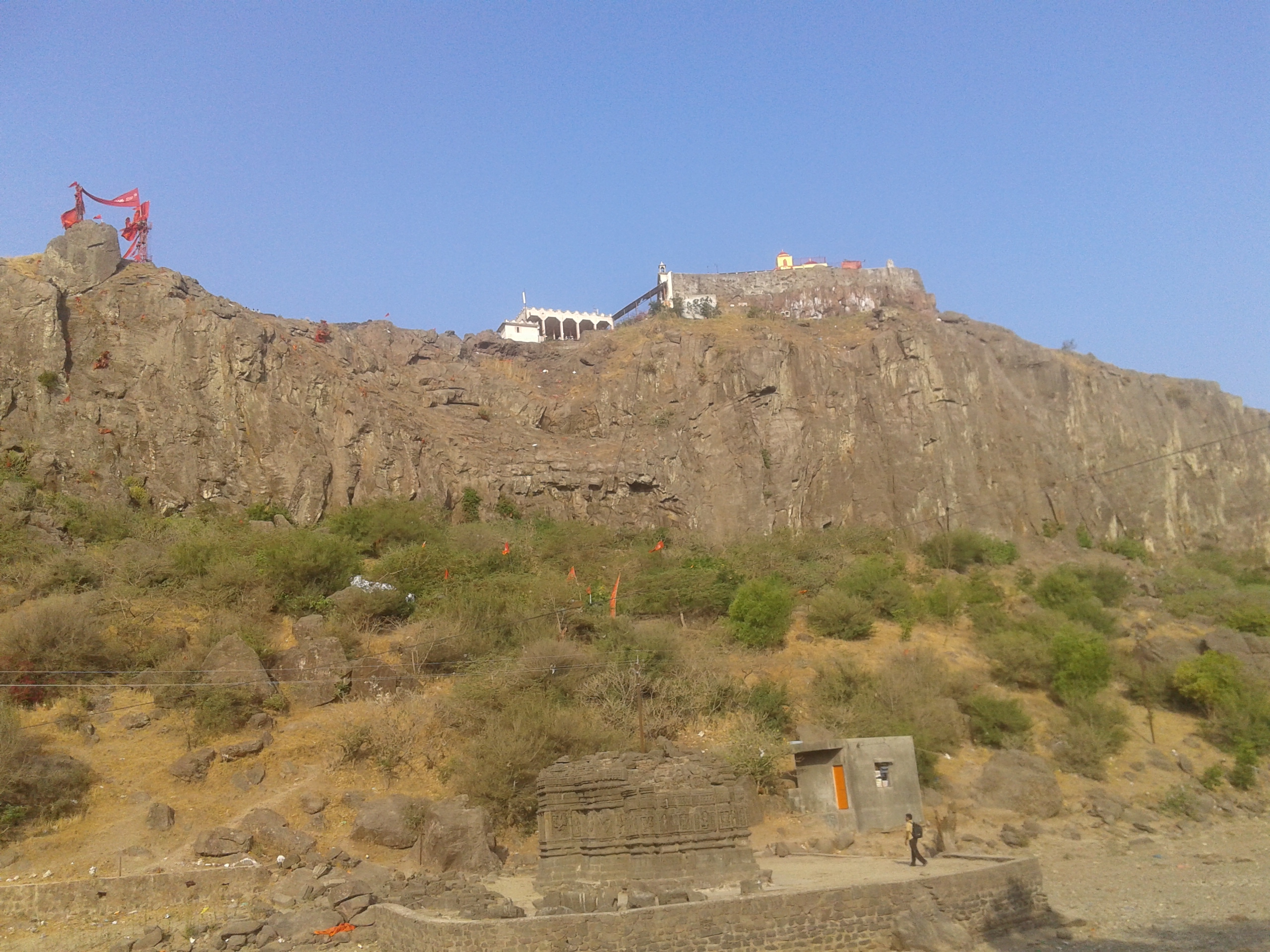 It is a mt. Pavagadh situated at Champaner, Gujarat, India. Image is taken from base of hill. On the hill, the buildings are temple of Goddess Kaali.